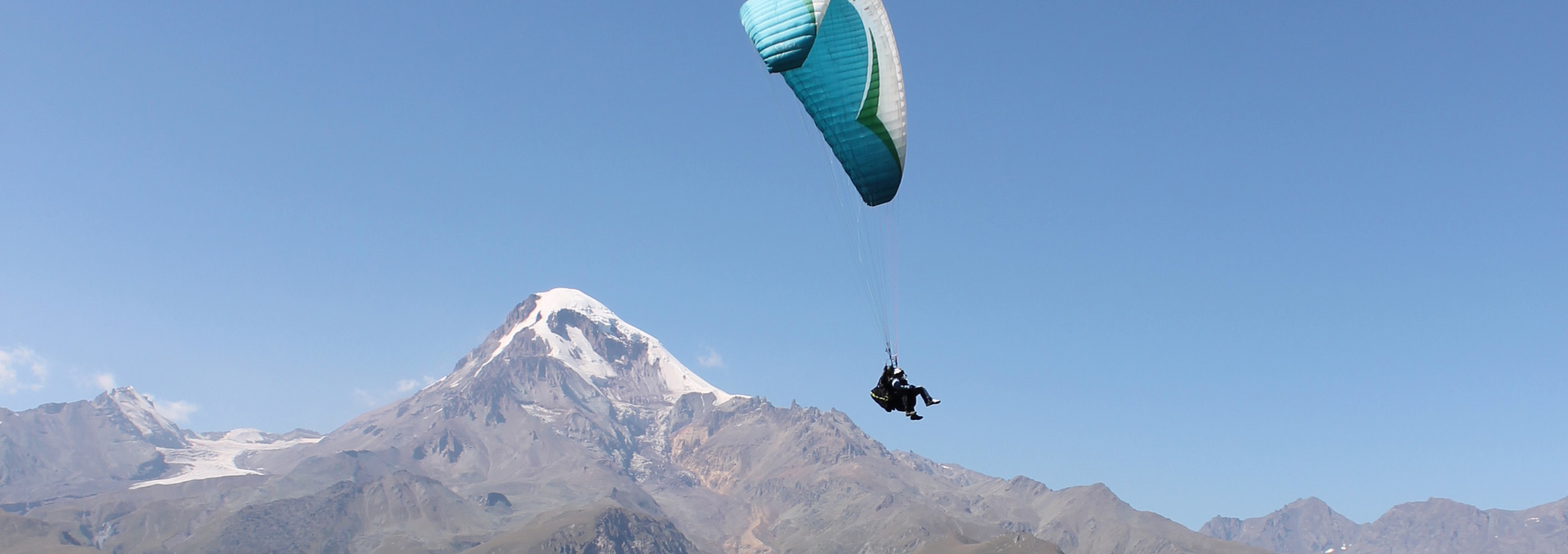 Paragliding in Kazbegi and Gudauri year round service.